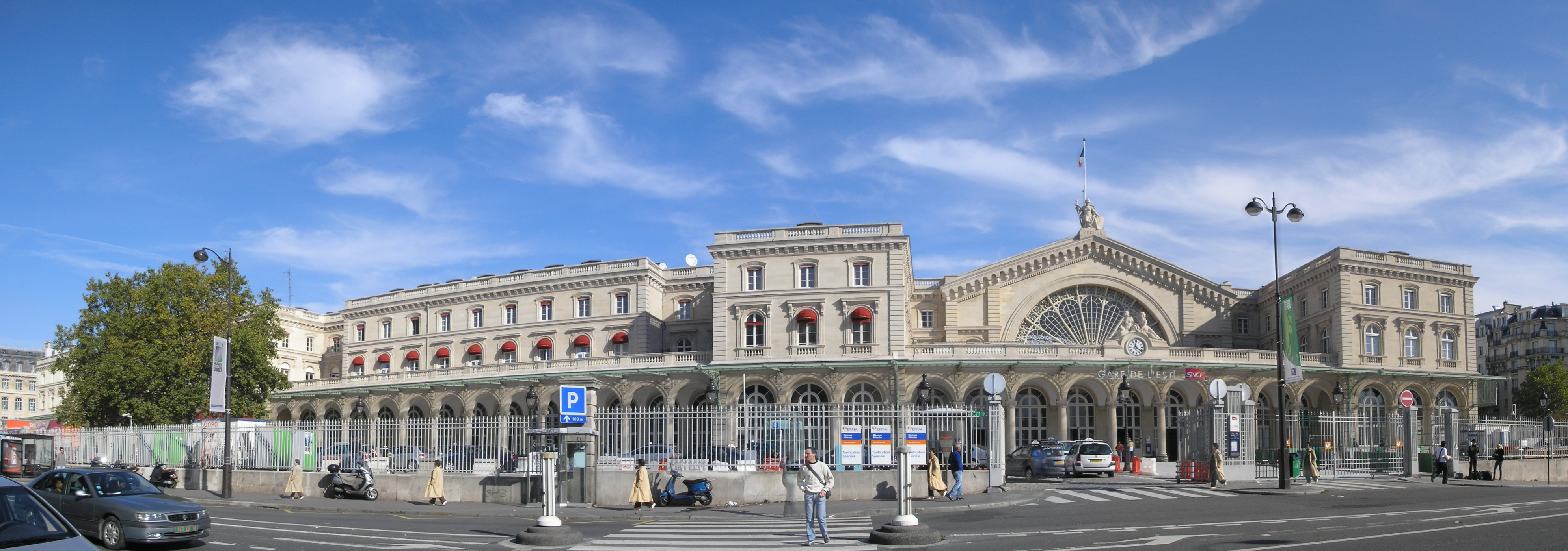 The Gare de l'Est in Paris